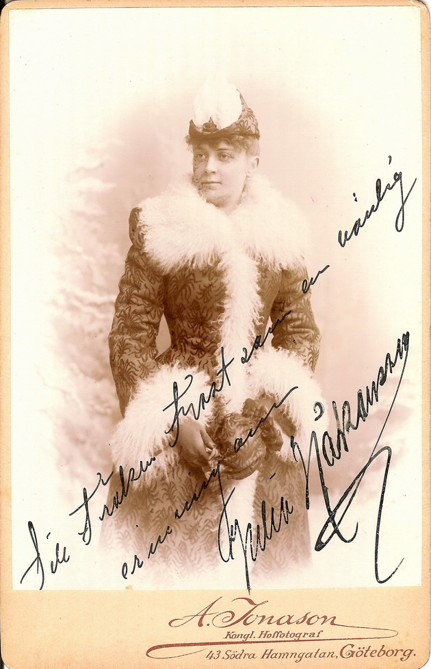 Julia Håkansson (1853-1940), Swedish actress.